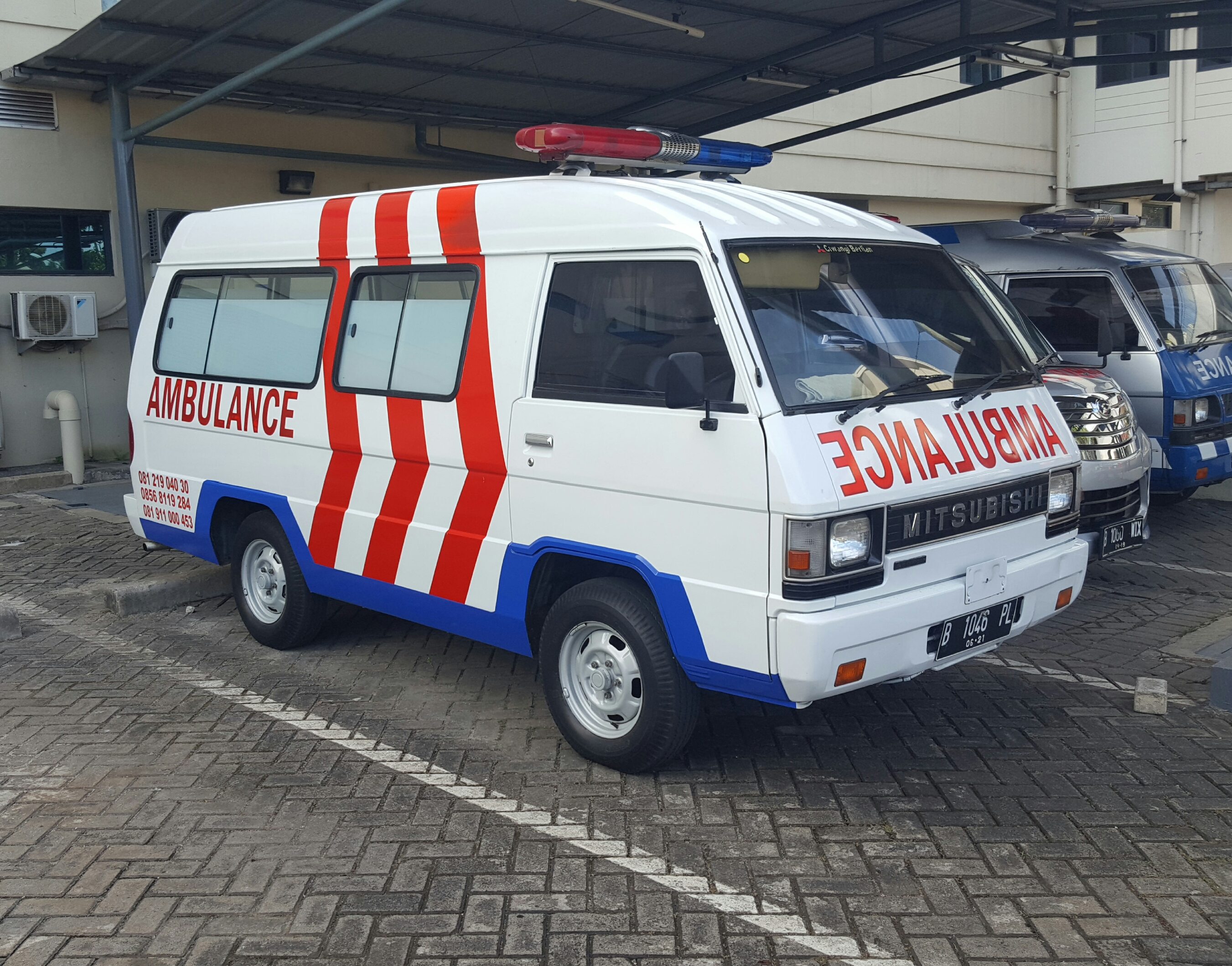 ambulance in indonesia